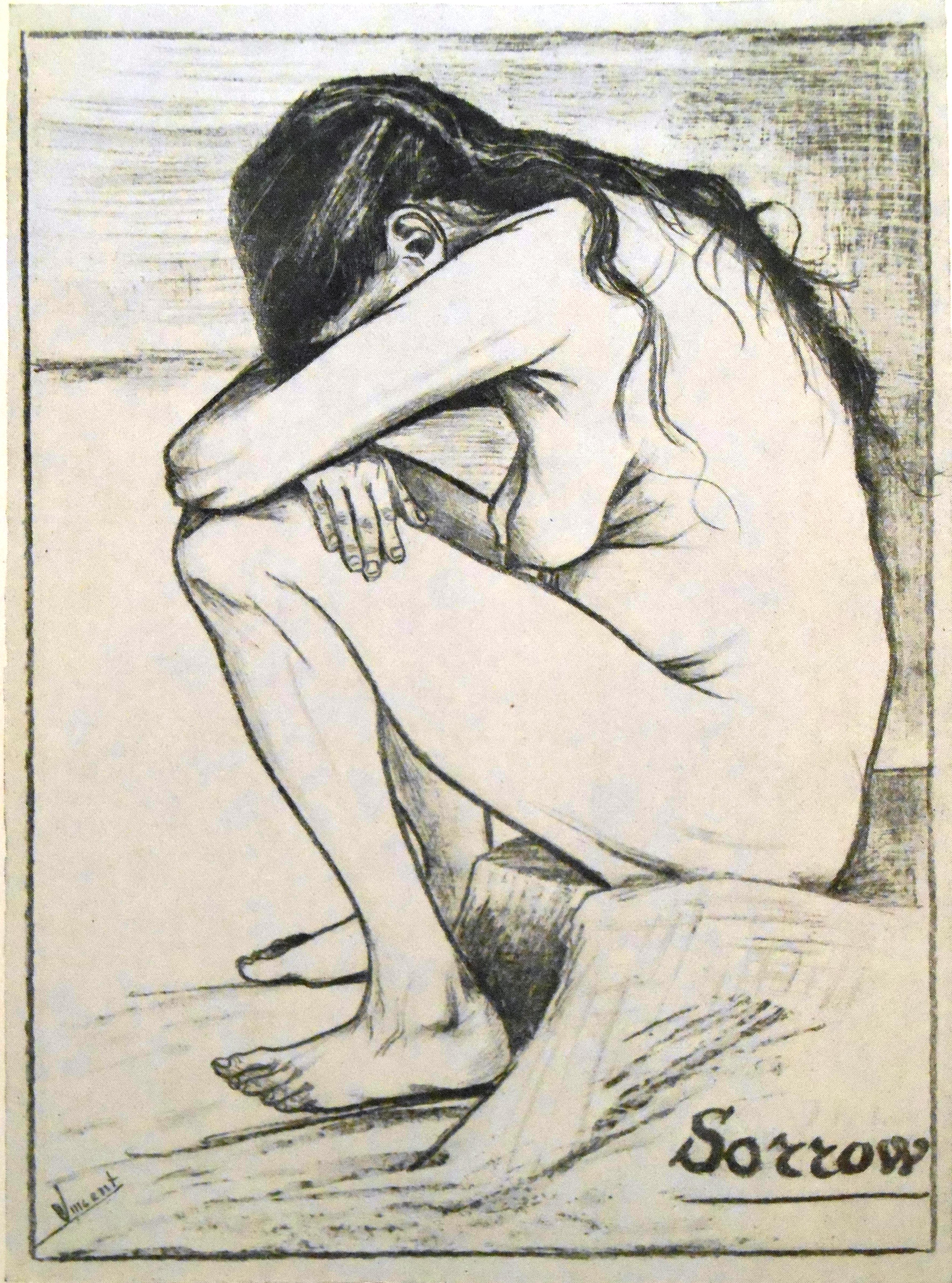 Sorrow Lithography F 1655, 15¼ x 11½ inches